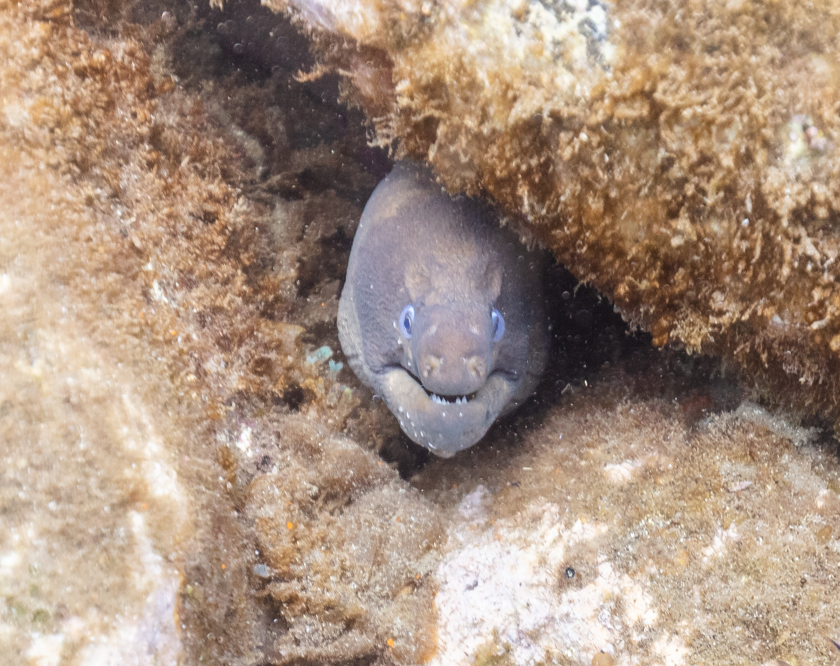 Brown moray eel (Gymnothorax unicolor), Madeira, Portugal